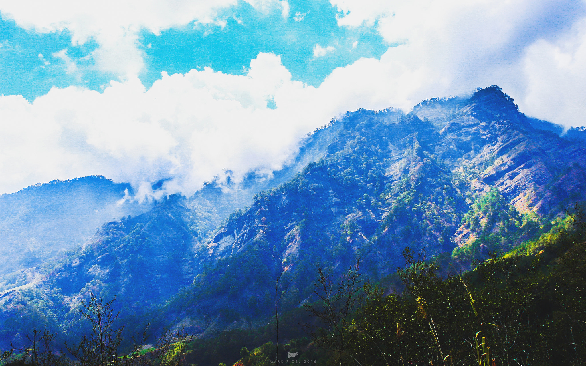 500px provided description: When in Kibungan III When the enchanting simplicity meets the exquisite complexity, with grace at full throttle, all heavens will break lose. [#trees ,#sky ,#forest ,#mountains ,#travel ,#blue ,#sun ,#clouds ,#tree ,#summer ,#beautiful ,#green ,#mountain ,#philippines ,#benguet ,#kibungan ,#Republic of the Philippines ,#bagiuo]